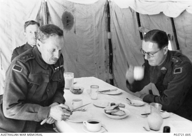 Palestine. c 1940. Lieutenant Colonel L C Lucas (on the left) having tea with Gunner Read opposite. QX6542 Captain Colin W C Dossetor is in the background. Capt. Dossetor was later accidentally killed on 23 August 1943, when making an experimental parachute jump and landed in the Cataract Dam, NSW, and drowned. (Donor M. Dossetor)